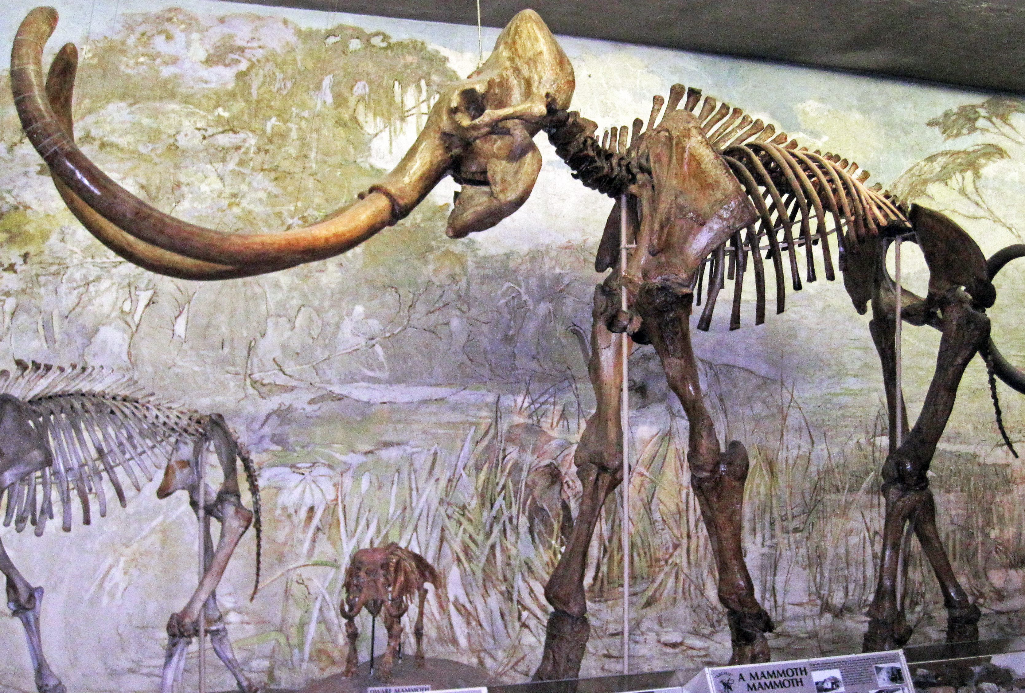 Mammuthus imperator maibeni (Barbour, 1925) - imperial mammoth skeleton from the Pleistocene of Nebraska, USA. (public display, Nebraska State Museum of Natural History, Lincoln, Nebraska, USA) Also known as Mammuthus columbi. From museum signage: Mammuthus columbia or Mammuthus imperator maibeni Imperial Mammoth 30,000 years old This skeleton lays claim to fame as being the largest mounted mammoth in any American museum. These elegant giants were the largest mammals known to have walked the Great Plains. Mammoths are the Nebraska state fossil. Formerly known as Archidiskodon imperator maibeni. Originally, chickens found the bones of this uncommonly large mammoth! In 1922, a farmer and his wife, Mr. and Mrs. H.S. Karriger, noticed that their chickens persistently pecked at some limy material at the bottom of a small canyon on their farm in Lincoln County, Nebraska. The chickens ate some of the bones before anyone realized that the soft limy deposits were fossil bones of great size. Paleontologists, with the help of the Karrigers, carefully excavated the Ice Age bones. Paleontologists assembled these bones in the old state museum in 1925. The mount was completed in 1933. Classification: Animalia, Chordata, Vertebrata, Mammalia, Placentalia, Proboscidea, Elephantidae Locality: Karriger Farm, Lincoln County, western Nebraska, USA See info. at